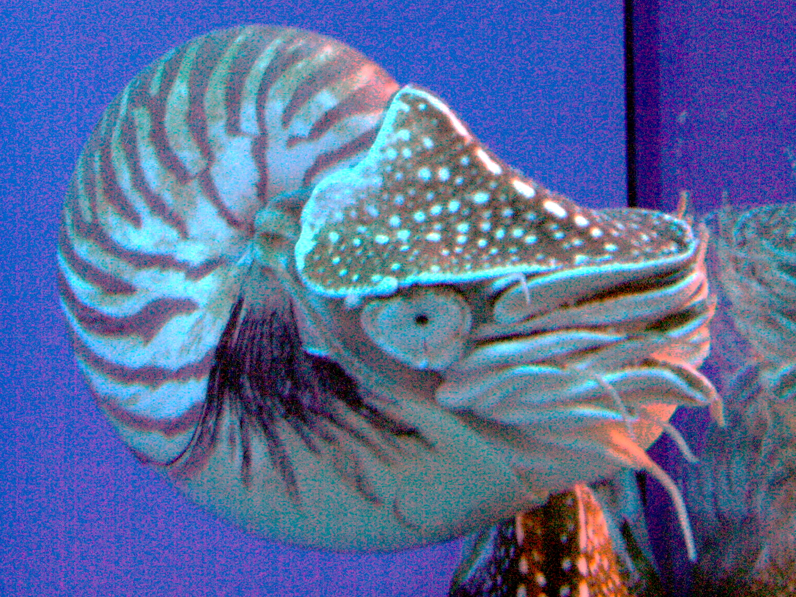 Nautilus pompilius in Sala Humboldt of Aquarium Finisterrae (House of the Fishes), in Corunna, Galicia, Spain.